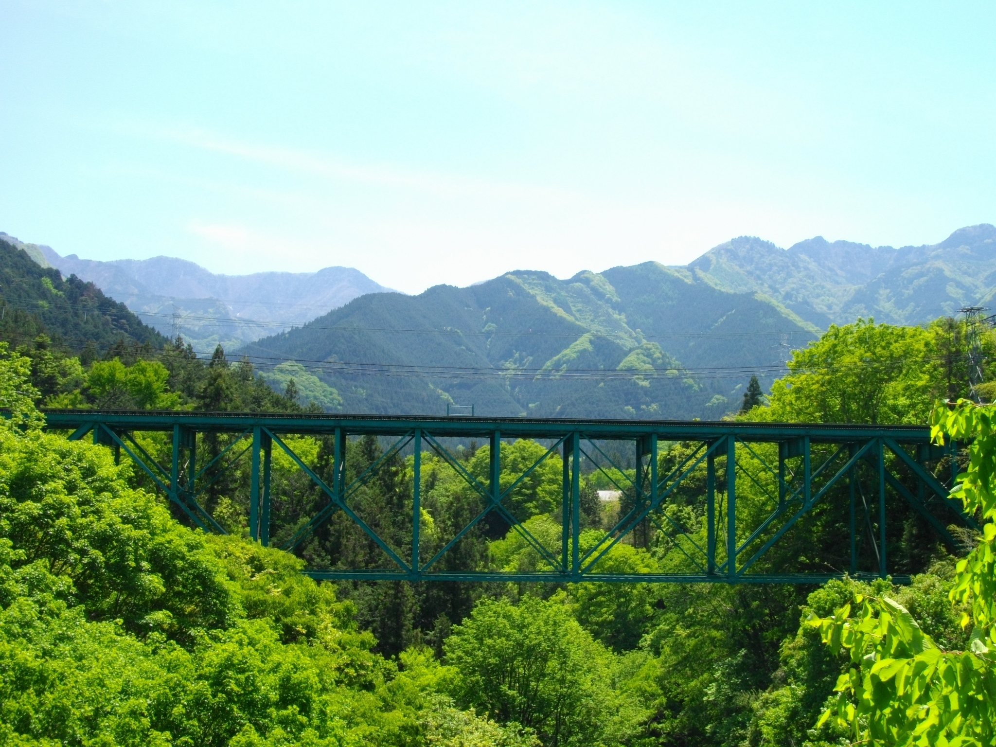 Chichibu Railway Anyagawa Bridge